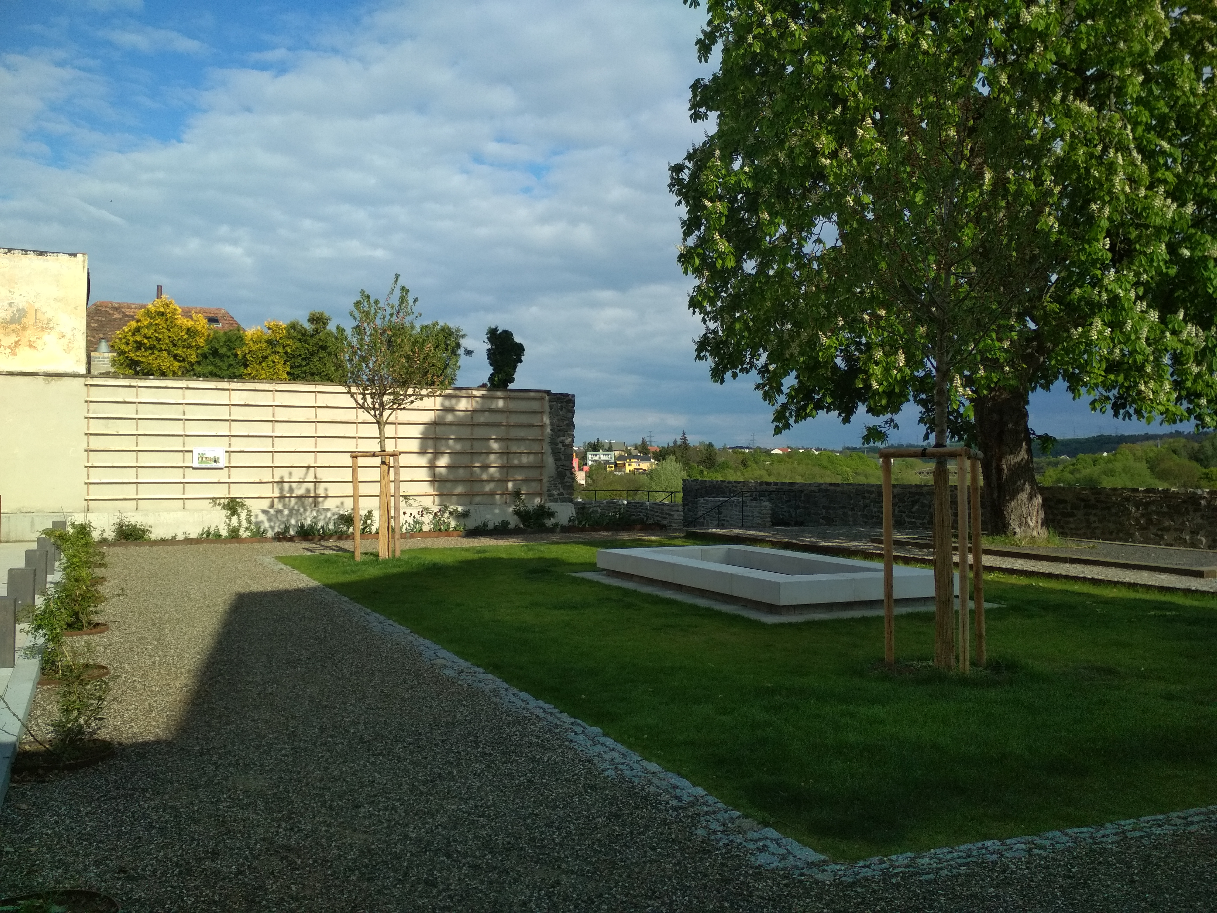 City walls of Kadaň after reconstruction in May 2020.